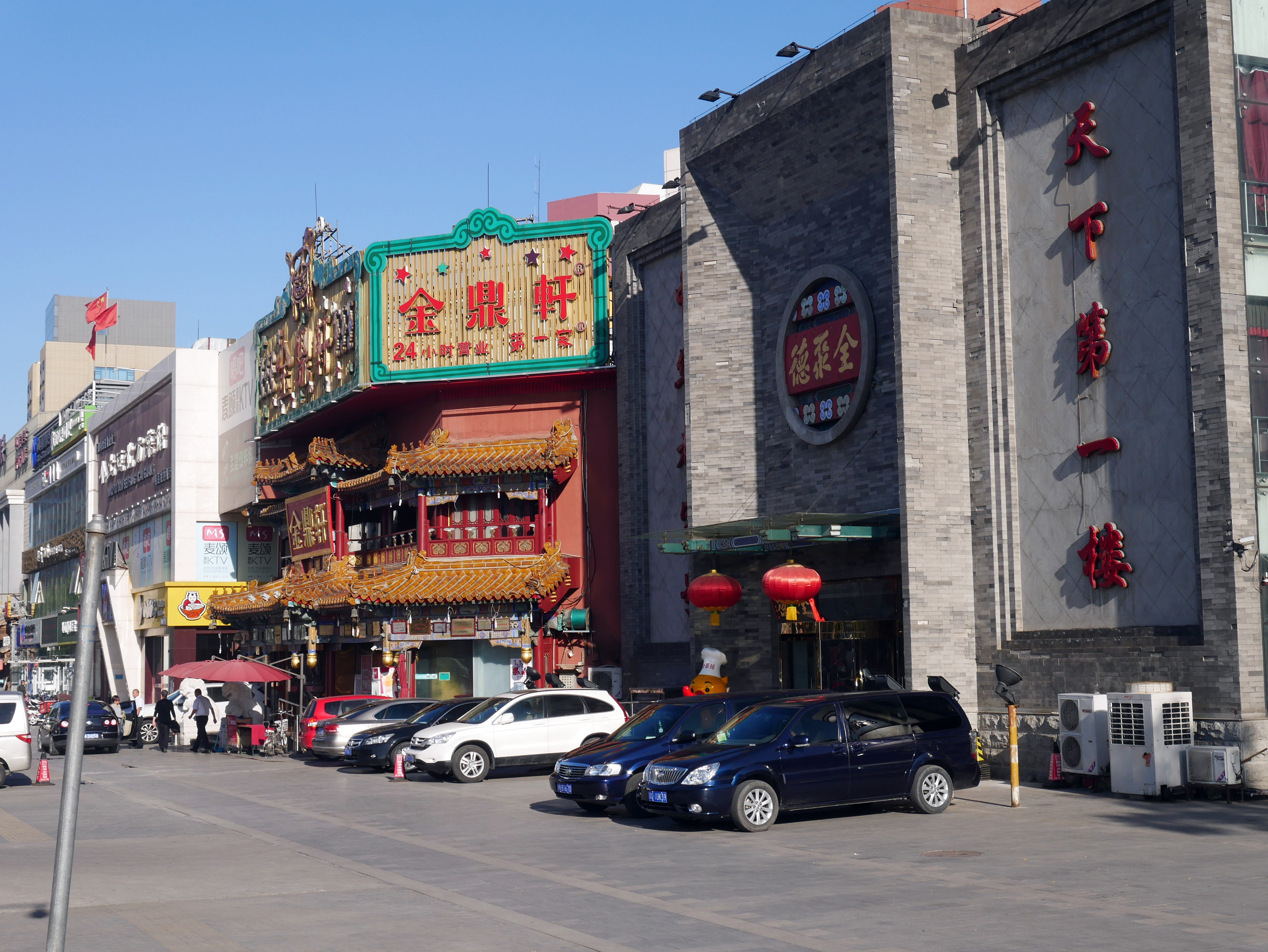 Peking Duck Restaurant at Pufang Rd, Fangzhuang, Beijing